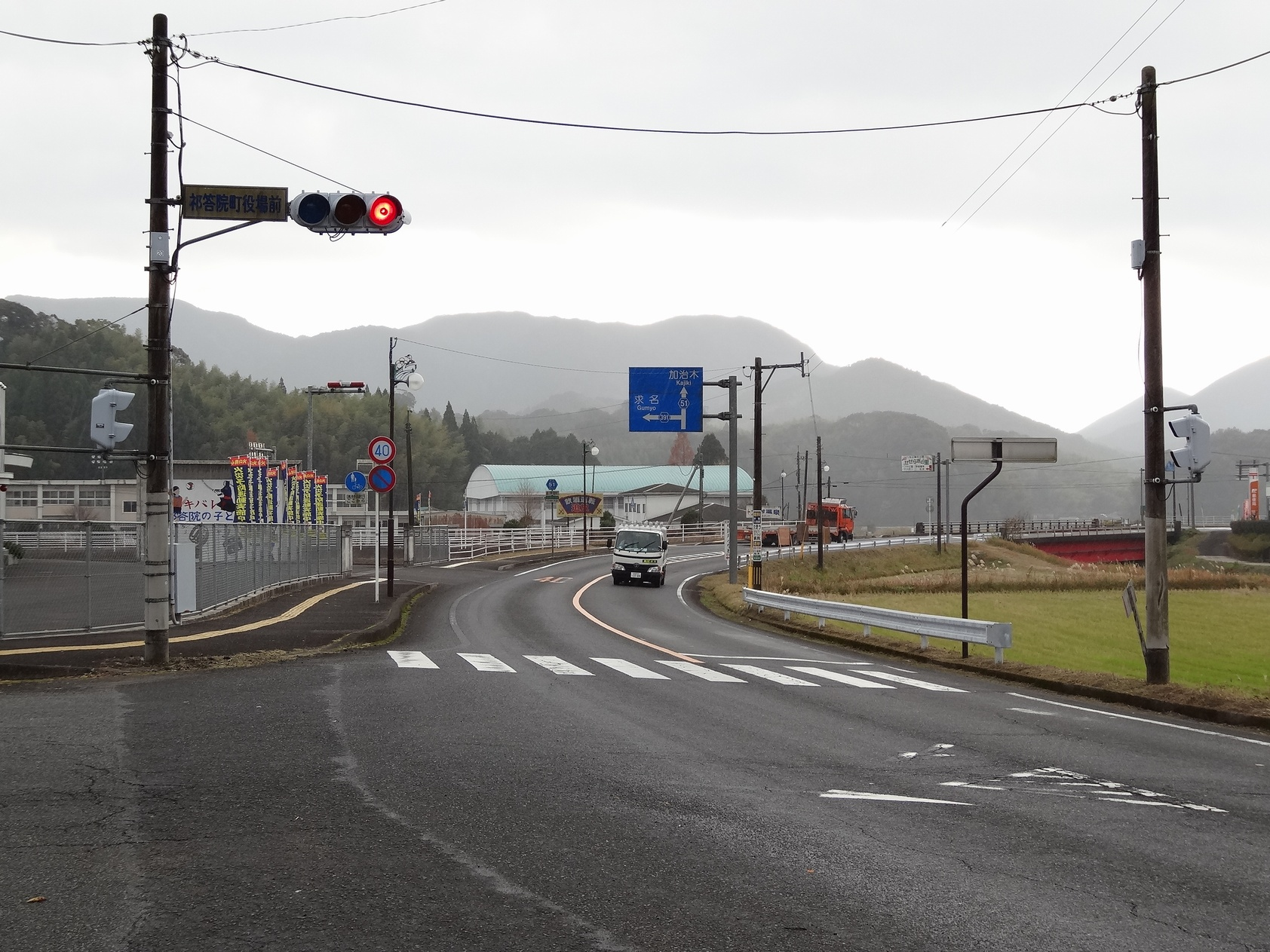 Kagoshima Prefectural Road No.51 Miyanojo - Kajiki Line (Around the "Kedoin Branch", Satsumasendai City, Kagoshima, Japan)